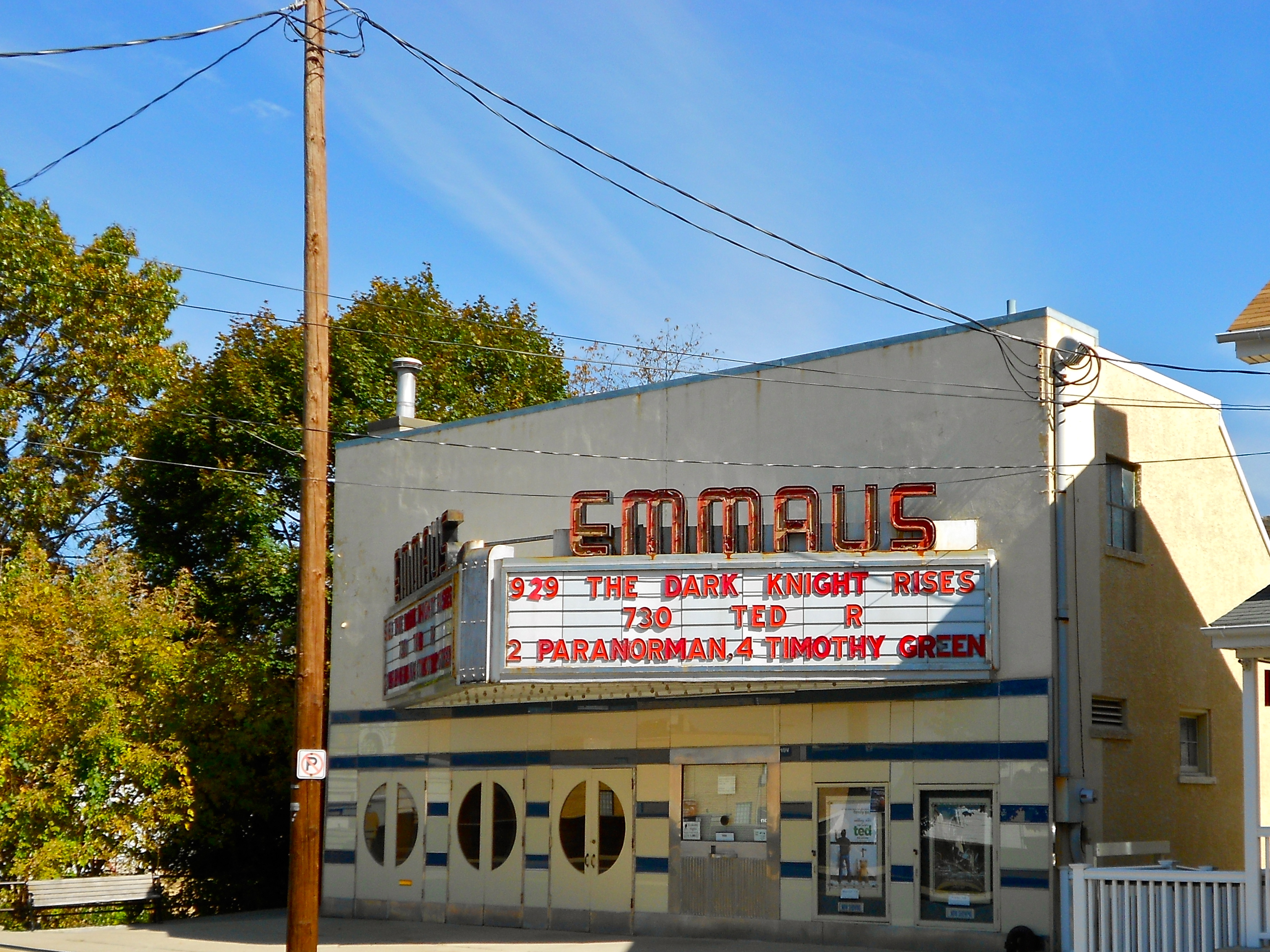 The Emmaus theater in Emmaus, Lehigh County, Pennsylvania on 4th Street